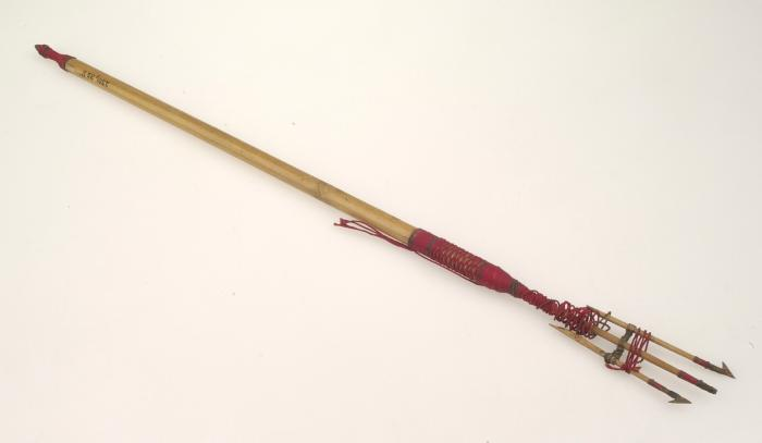 Bamboo fishing arrow with three bearded iron tips